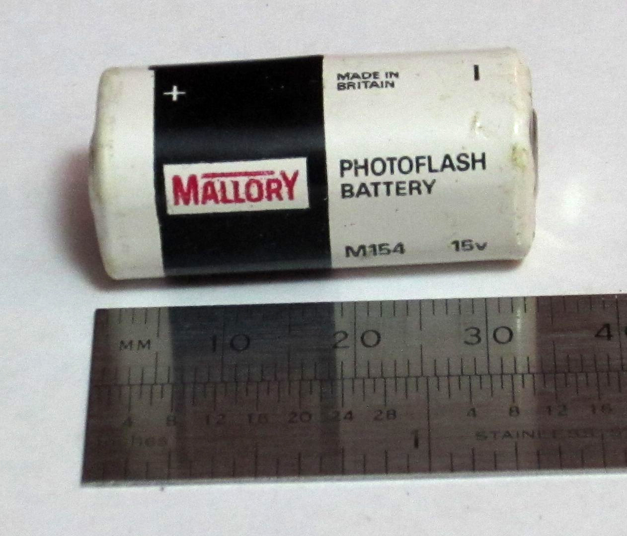 A 15-volt NEDA 220 battery from a multimeter. This 30+ year old battery still produces 15 volts off load and has not leaked. The Mallory logo has not been used since 1978.